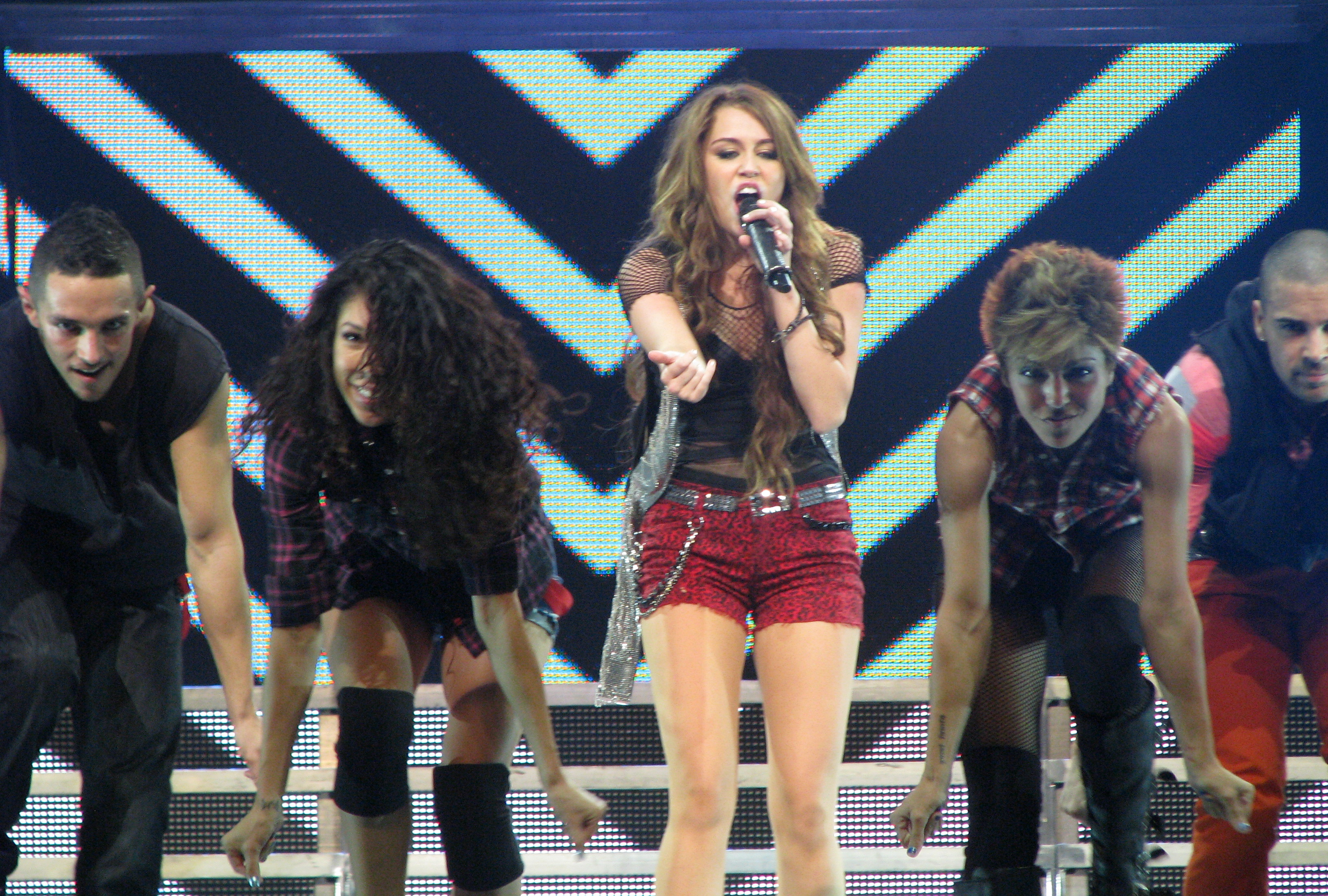 Pop singer Miley Cyrus performs "Spotlight", wearing a black blouse, red, cheetah-printed hotpants, and silver vest, with many backup dancers, on September 14, 2009 at the Rose Garden in Portland, Oregon, as part of her 2009 Wonder World Tour.